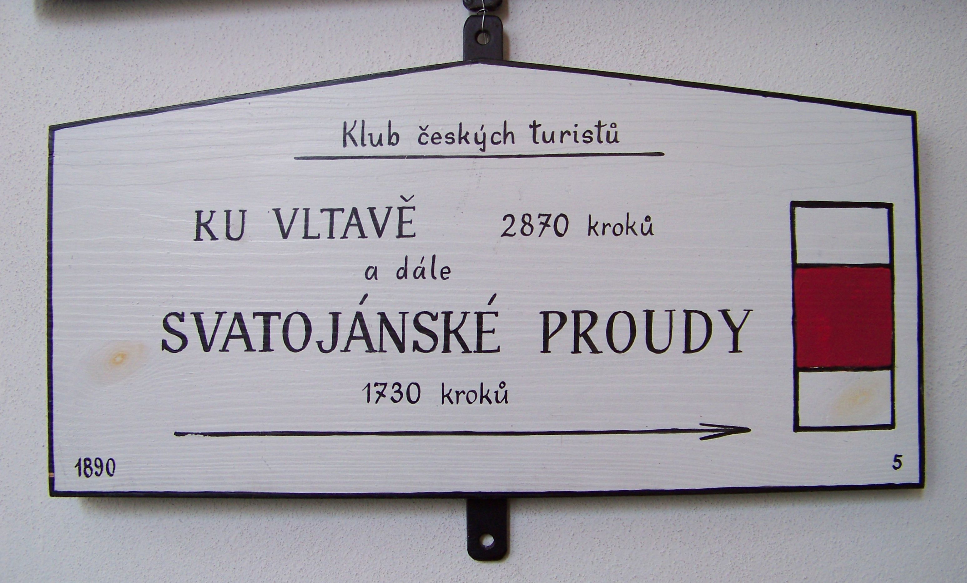 A walking fingerpost. An exhibit of the Tourism Museum in Bechyně, Tábor District, South Bohemian Region, the Czech Republic, former synagogue in Široká street. Object location 49° 17′ 47.80″ N, 14° 28′ 9.50″ E This and other images at their locations on: Google Maps - Google Earth - OpenStreetMap - Proximityrama(Info)